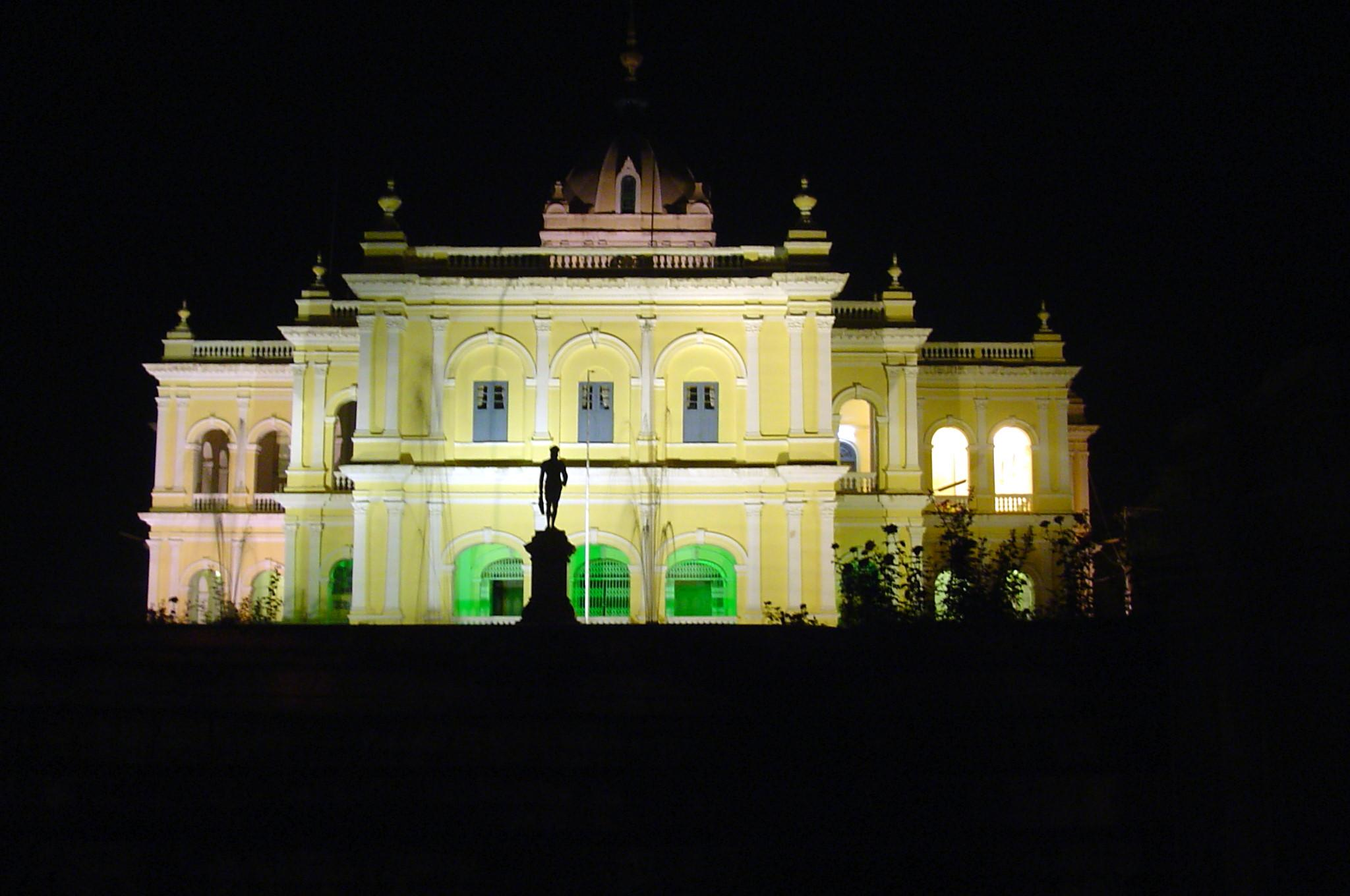 University of Mysore